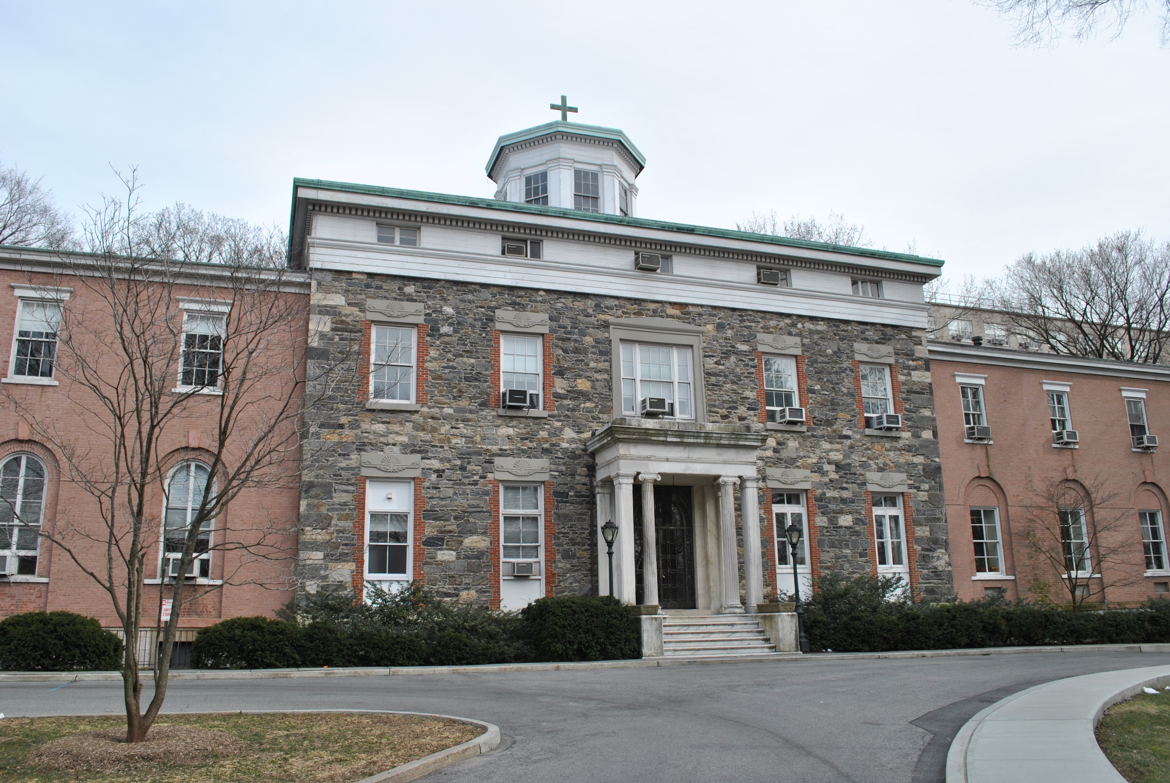 Fordham University 1st Buidling